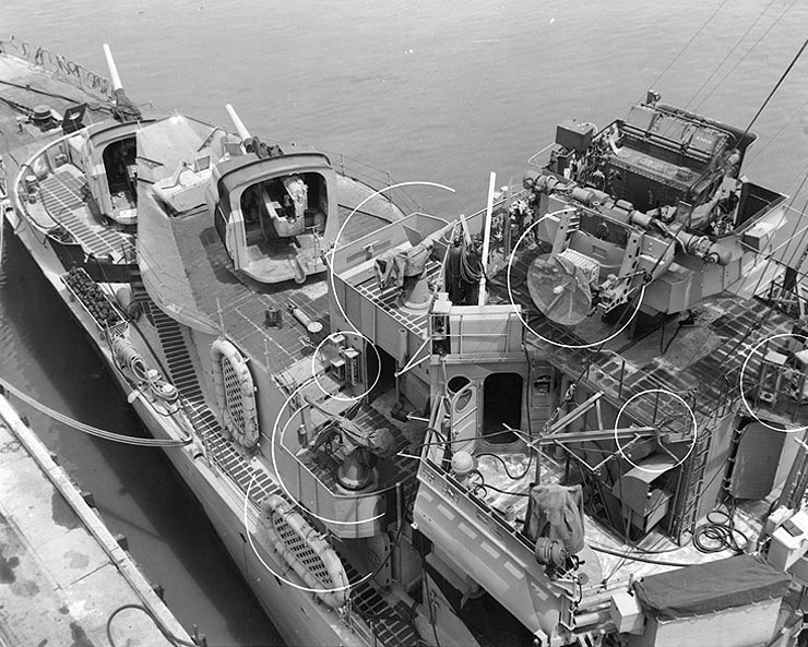 USS Mahan (DD-364), 24 June 1944